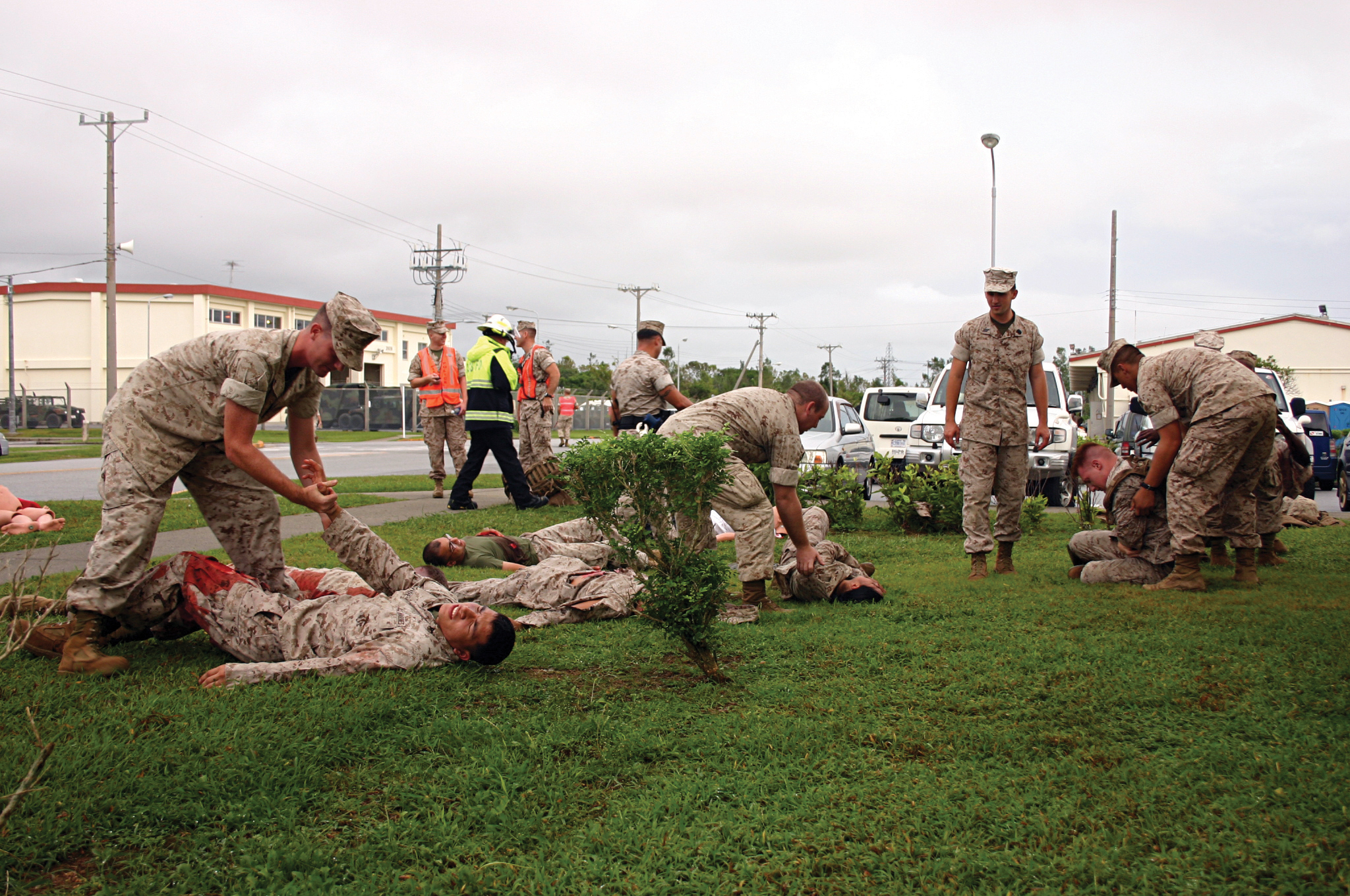 Military police and other Marines and sailors acting as first responders stage mock casualties after having evacuated them from the scene of a notional explosion at Building 2601, an empty building being used to represent The Palms Club, during Mission Assurance Training Exercise 2011 on Camp Hansen Oct. 5. Once all mock casualties had been removed from the building, they were then moved from the initial staging area to a more secure location for first-aid treatment. In a real-world situation, the injured would then be transported to U.S. Naval Hospital Okinawa on Camp Lester for treatment as soon as possible.